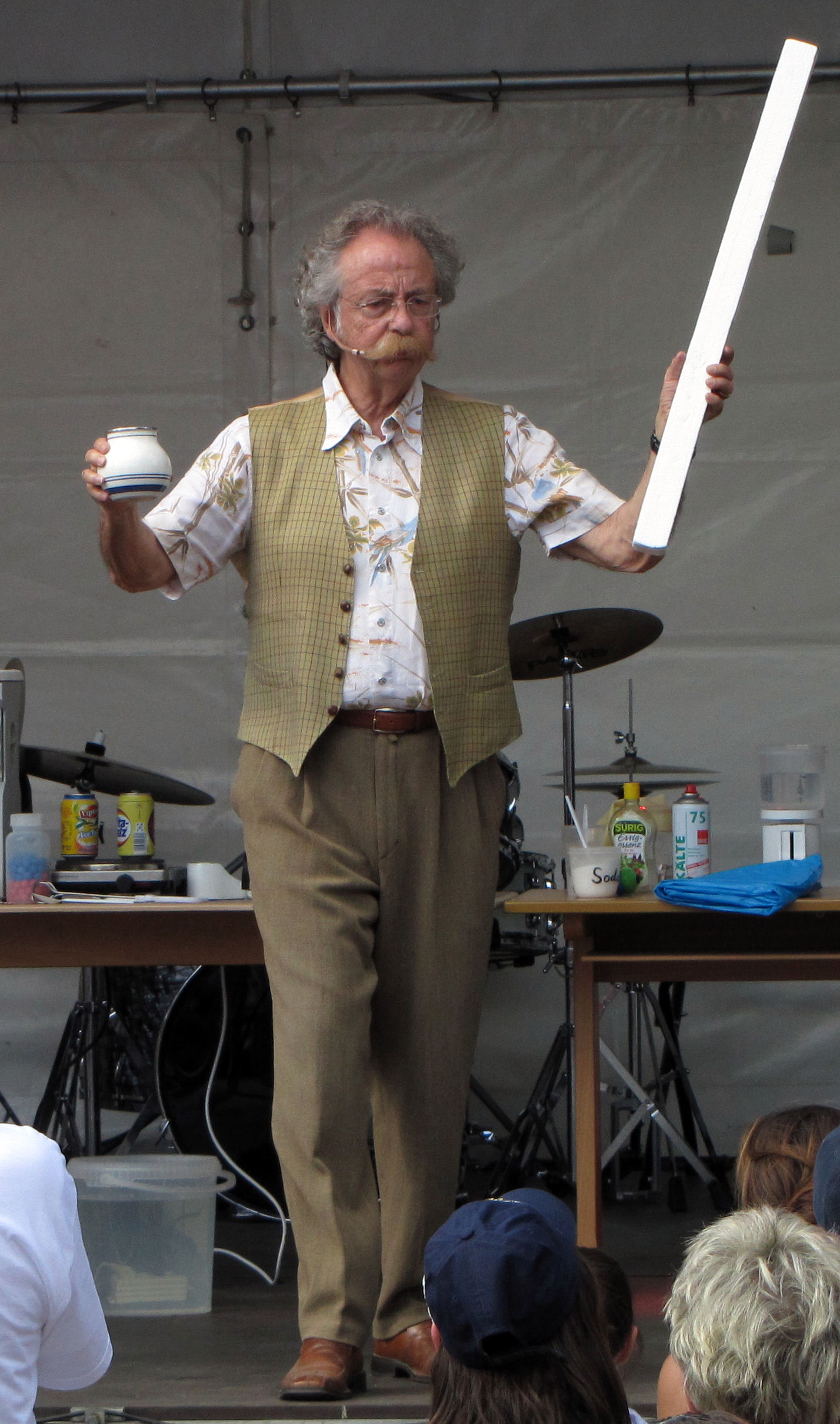 Jean Pütz during the opening of the Geyser information center in Andernach